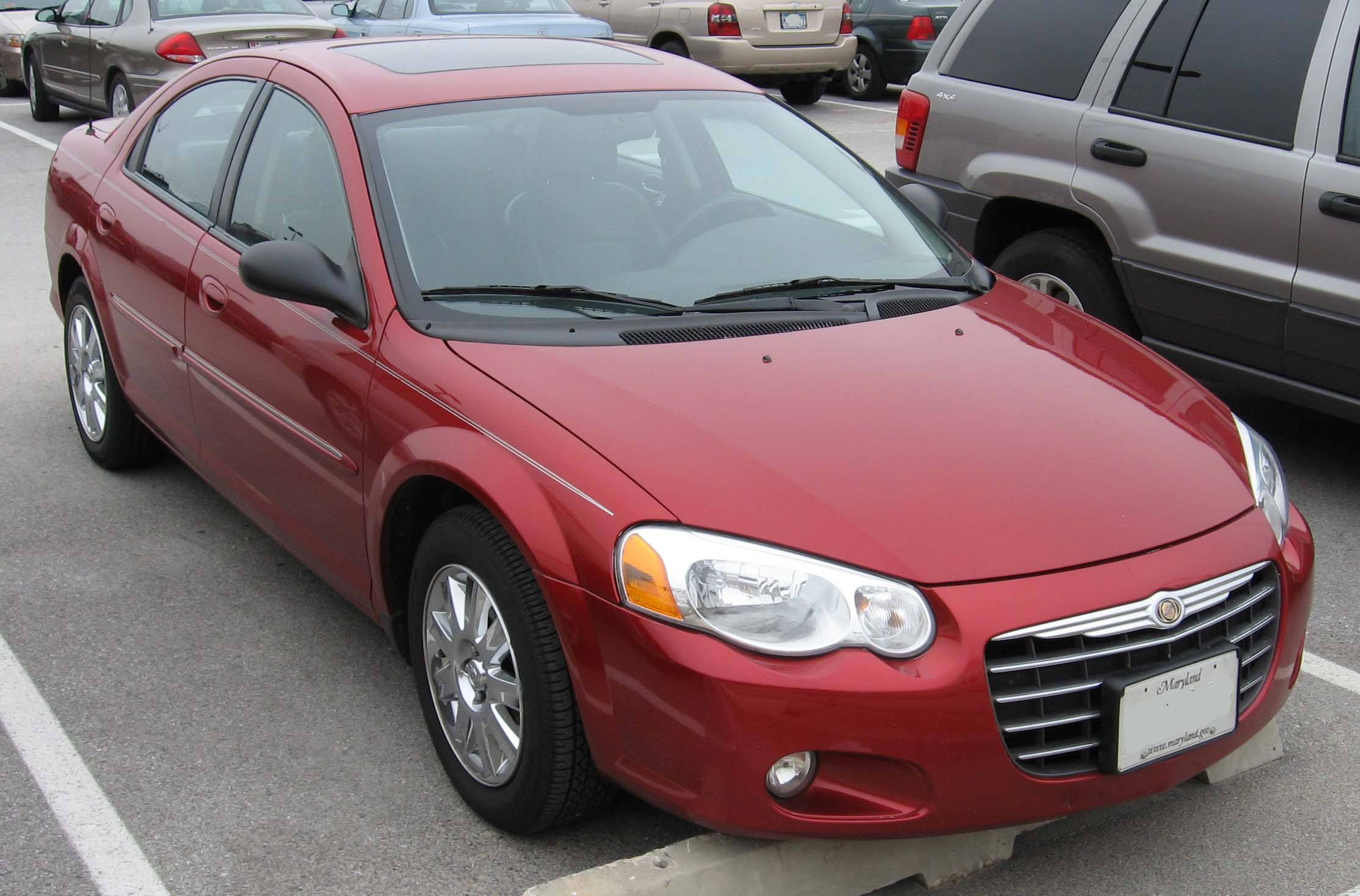 2004-2006 Chrysler Sebring photographed in USA.